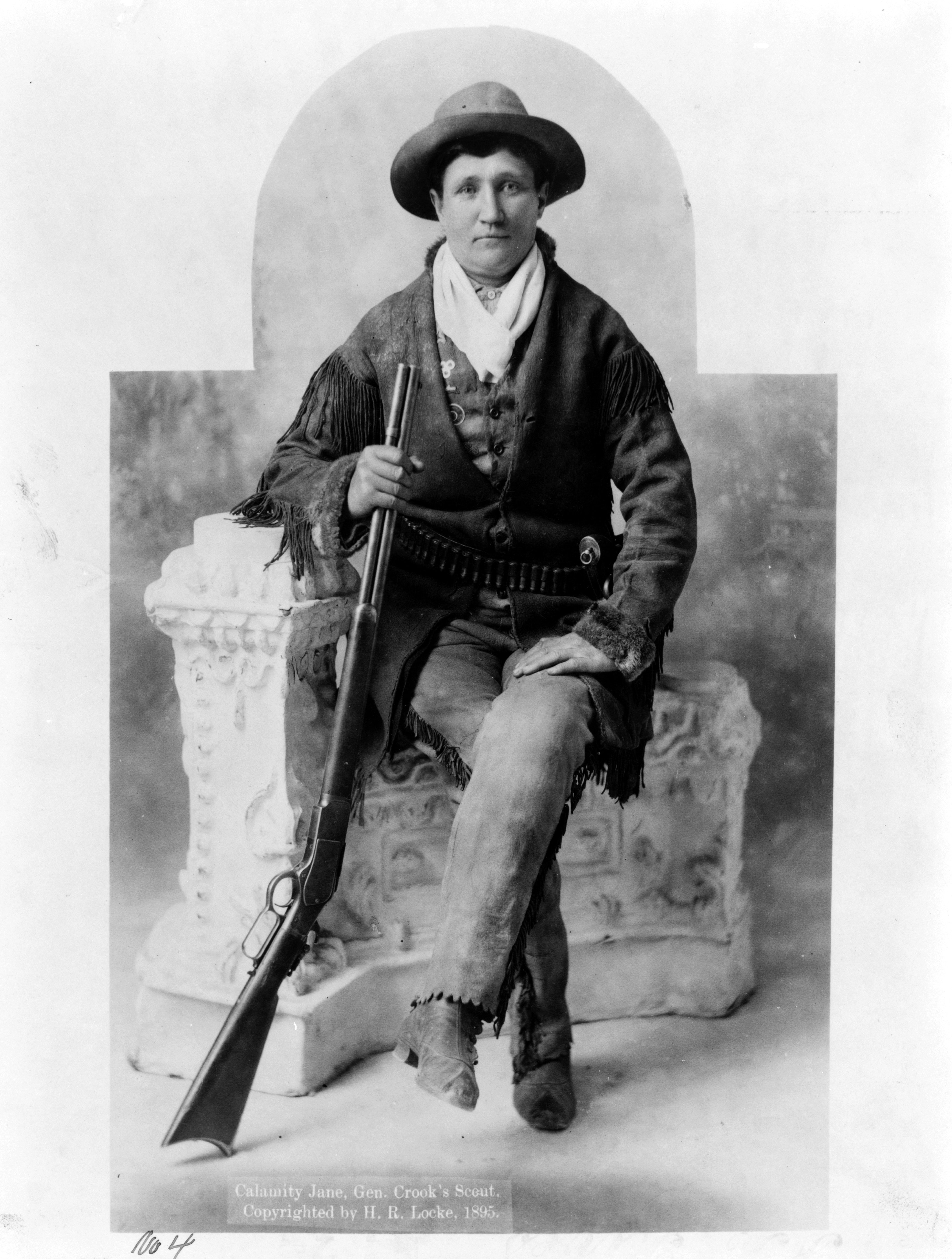 Martha Canary (aka) "Calamity Jane" (1852-1903), full-length portrait, seated with rifle as General Crook's scout.